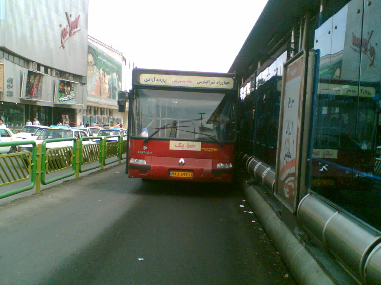 BRT